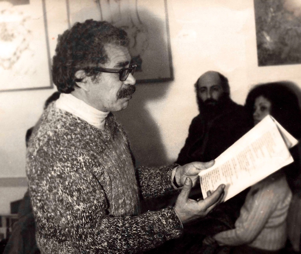 Hector Borda Leaño at a poetry recital in Buenos Aires in 1971.